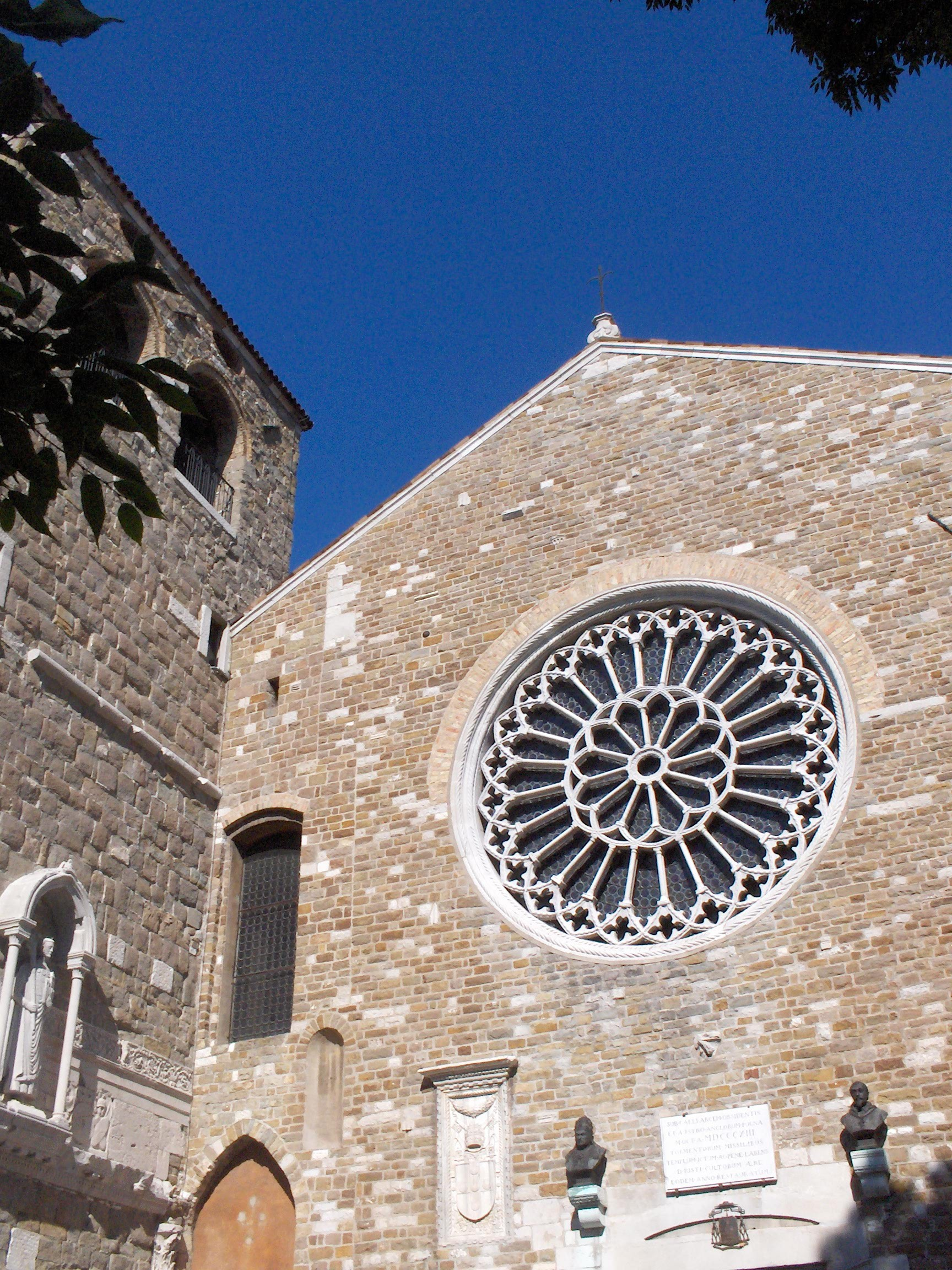 San Giusto Cathedral in Trieste.